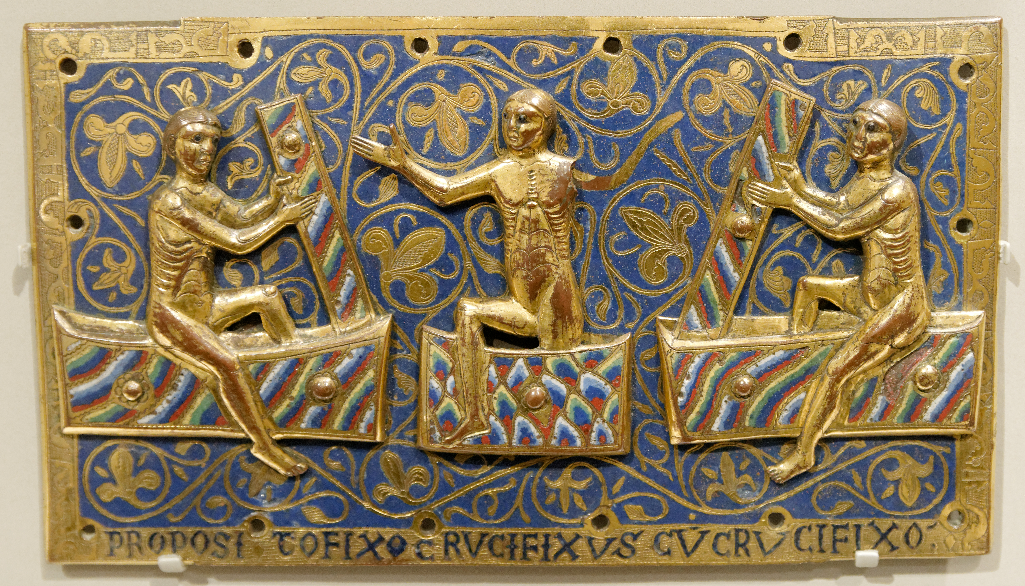 Plaque with three saints rising from the dead, Limoges artwork.